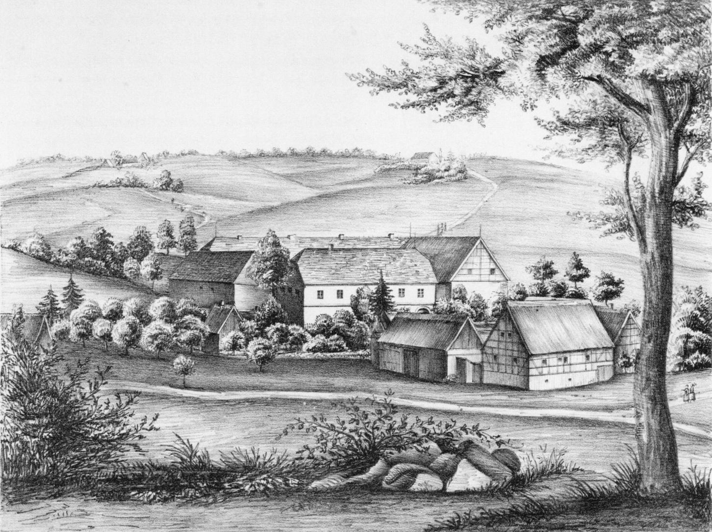 manor Niederbobritzsch in the Erzgebirge